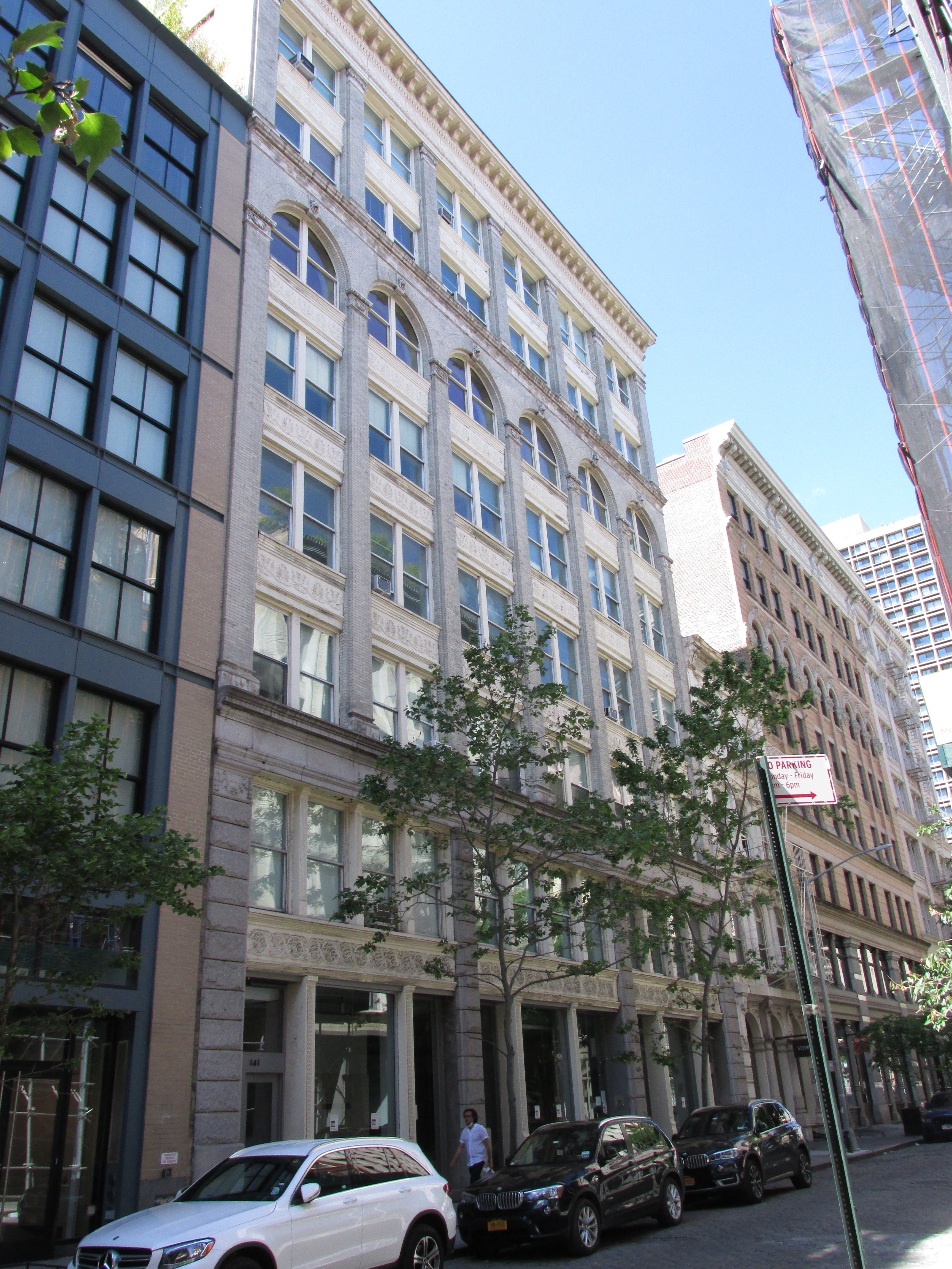 Building which houses the New York Earth Room by Walter De Maria